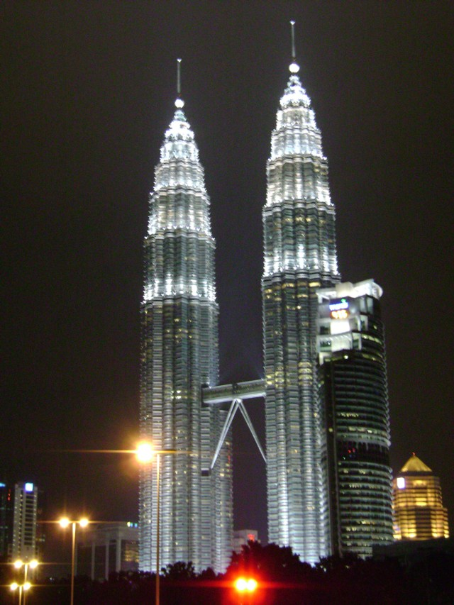 Petronas Twin Towers in its beautiful lights